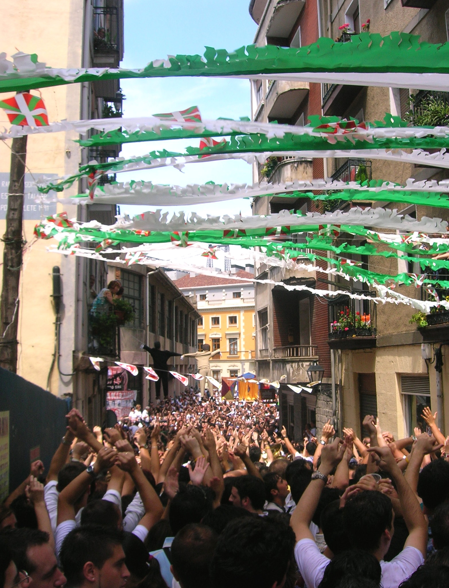 People marching down Coscojales street, in Portugalete old town, during the fiestas of Our Lady of La Guía (?), 2006.